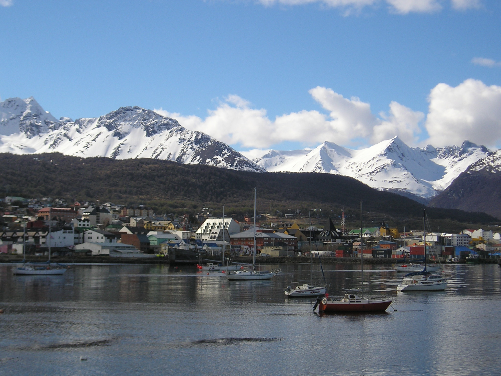 Ushuaia, Argentina - a view of the town from Pasaje Pedro Luis Fique (separating the bay and the captured "lake")